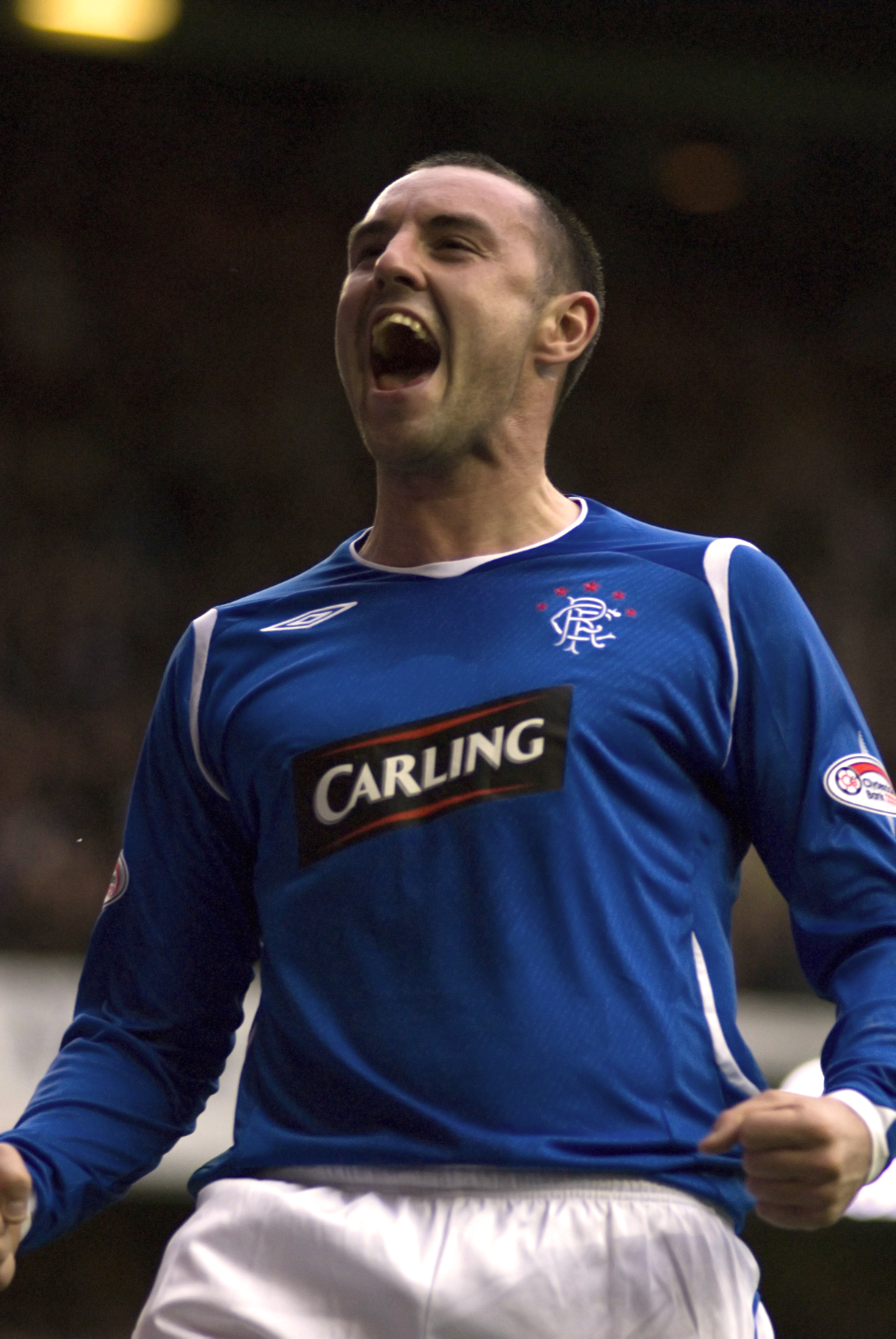 Kris Boyd, Scottish footballer for Middlesbrough (with Glasgow Rangers at time of photo)